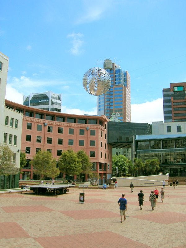 Wellington's town square is surrounded by council buildings and the City Art Gallery. Wellington, New Zealand.Civic Square, Wellington